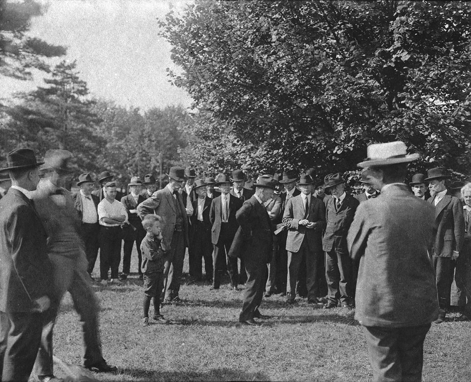 The ground-breaking for the Freer Gallery of Art on September 23, 1916. A crowd of people has formed a semi-circle to observe the event. While not all of the individuals are identified, several names are listed on the back of the print, including: H. W. Dorsey, C. R. Aschemeier, J. S. Pollock, Joseph Mace, George T. Mace, Richard Rathbun, Ms. M. V. Young, James G. Traylor, Charles Greeley Abbot (fifth Secretary of the Smithsonian Institution, 1928-1944), E. L. Springer, D. L. Stejneger, and Ms. M. E. deRonceray Text removed from bottom of image: Sept 23, 1916 / 29333